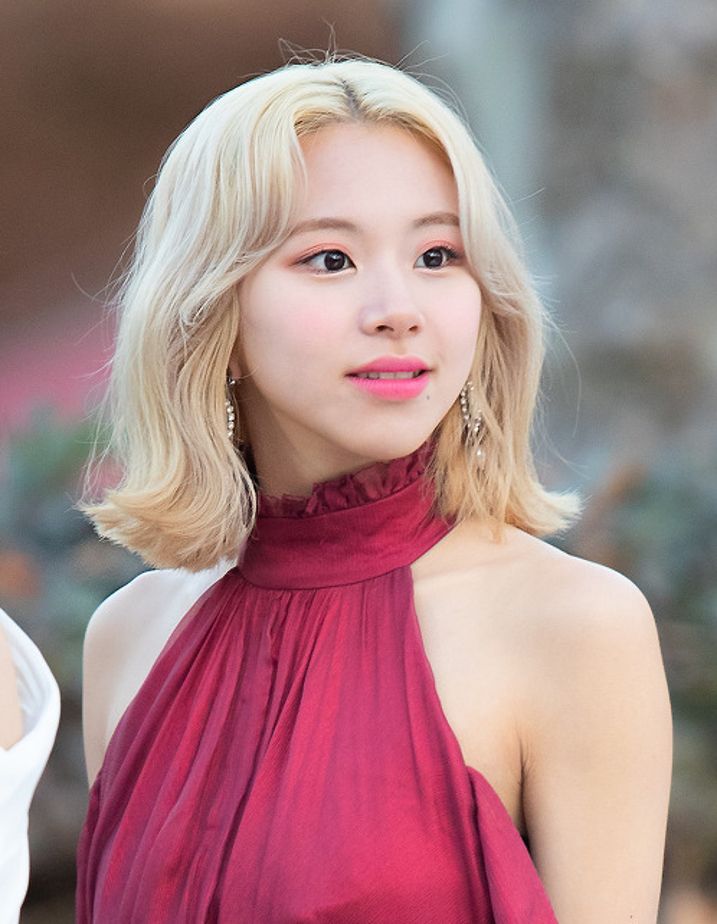 Chaeyoung at Gaon Awards red carpet on January 23, 2019.